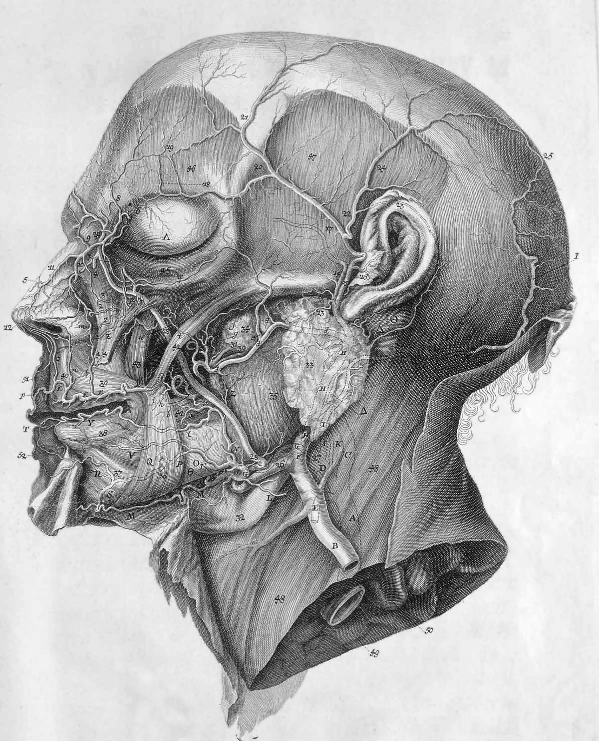 "Icones anatomicae" by C.J. Rollinus (Artist) published by Albrecht von Haller (Anatomist) in 1756. Uploader:--Kuebi 15:34, 3 April 2007 (UTC)